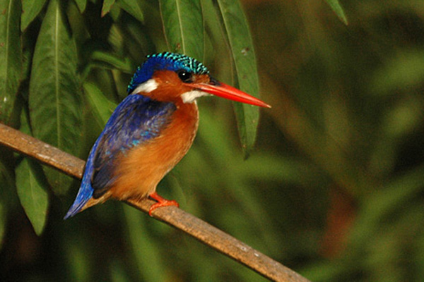 Uganda Malachite Kingfisher (Alcedo cristata)